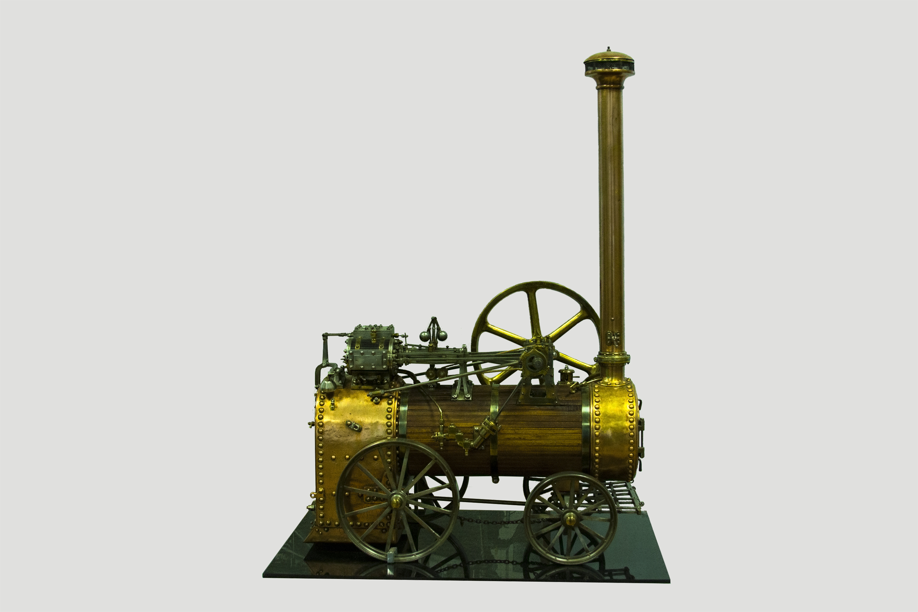 Steam-engine, Polytechnical Museum, Moscow